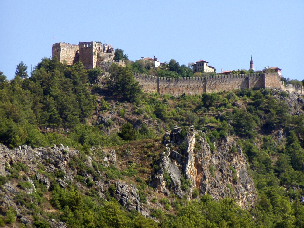 The citadel viewed from the city. The Citadel of Alanya, the walls of which are nearly 6.5 kilometres long, is on a peninsula whose height is up to 250 metres from the sea level. Although the settlement on Alanya peninsula, also known as Kandeleri, dates back to the Hellenistic Era, its cultural characteristics that can be seen today are thanks to Selcuks of the 13th century. The citadel was constructed on the demand of the Sultan of Selcuks, Alaaddin Keykubat, who conquered and had the city rebuilt in 1221. The citadel has 83 towers and 140 bastions. Nearly 400 cisterns were built to supply the city surrounded by walks in the medieval times with water. Some of the cisterns are still used today. The Seljuk Empire used Alanya as a second capital city in addition to Konya and used the city as a winter residence and made improvements there. Mongol attacks in 1243 and the Invasion of Anatolia by Egyptian Memluks weakened the Seljuk Empire which was divided in 1300, and the region came under the reign of the Karamano?ullar? dynasty. In 1427 Alanya was sold to the Memluk Sultan for five thousand gold pieces, and then in 1471 the city was included within the borders of the Ottoman Empire by Mehmet II The Conqueror.